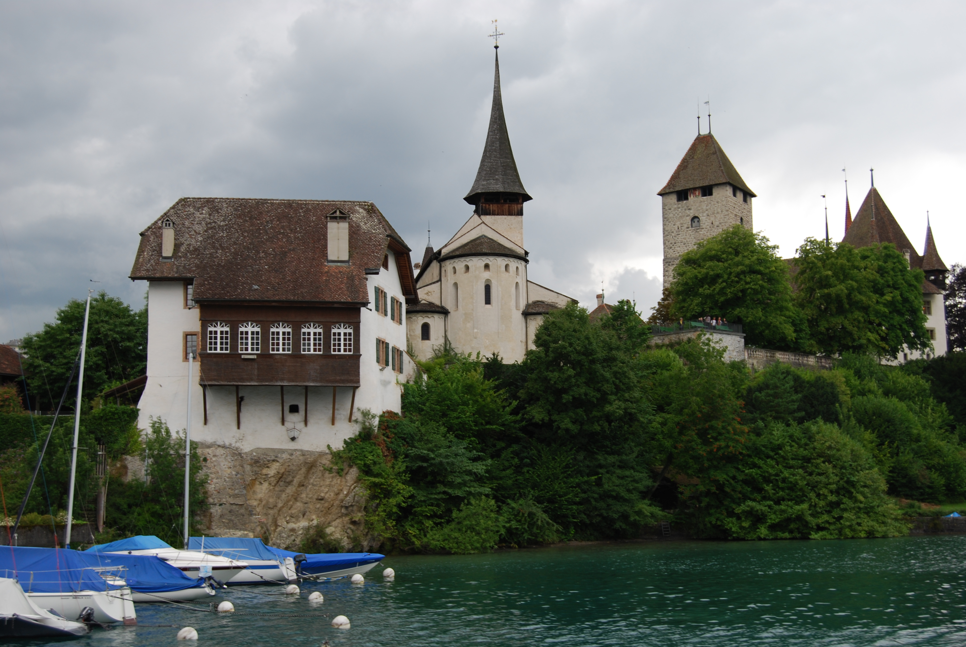 Castle and church Spiez, canton of Bern, Switzerland